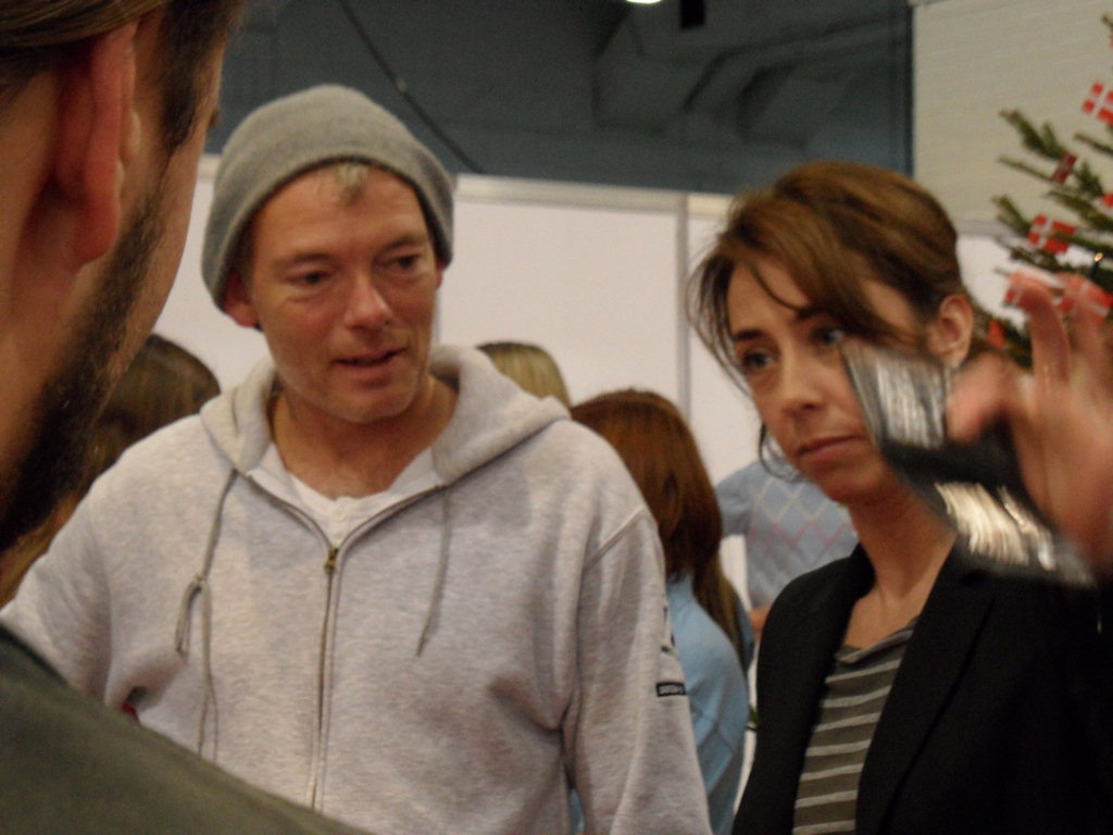 Sofie Gråbøl and Søren Malling at the Scandinavia Show in London in 2011.